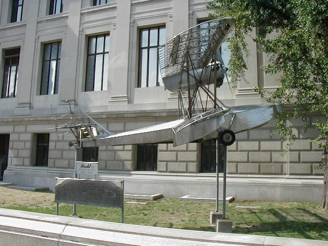 The Budd BB-1 Pioneer airplane in front of the Franklin Institute in Philadelphia, PA. It was designed by Enea Bossi of the Budd Company, and was the first stainless steel aircraft ever built. It has been on display in front of the Franklin Institute since 1935.